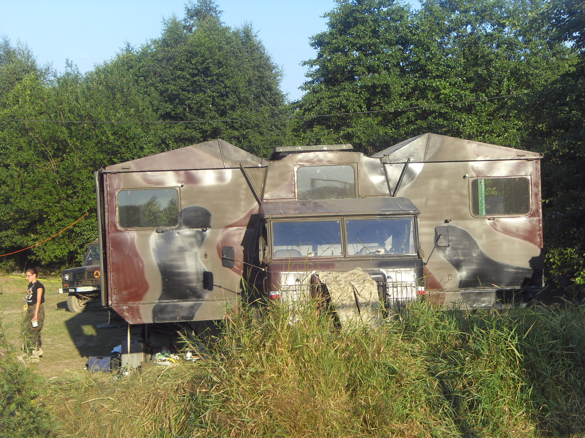 Star 660 "mobile operating room" during Operacja Południe 2011